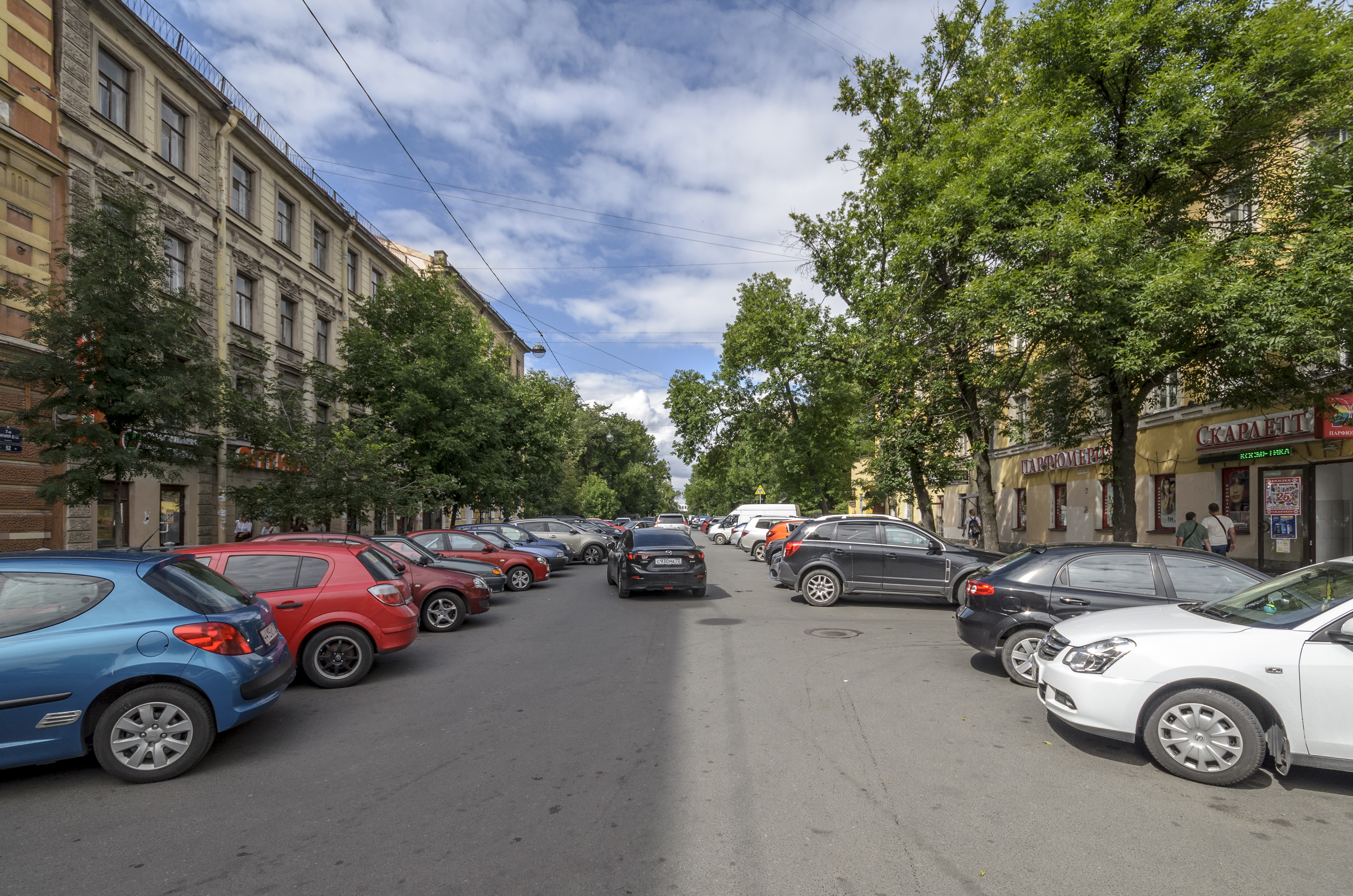 6-7 Lines of Vasilievsky Island in Saint Petersburg